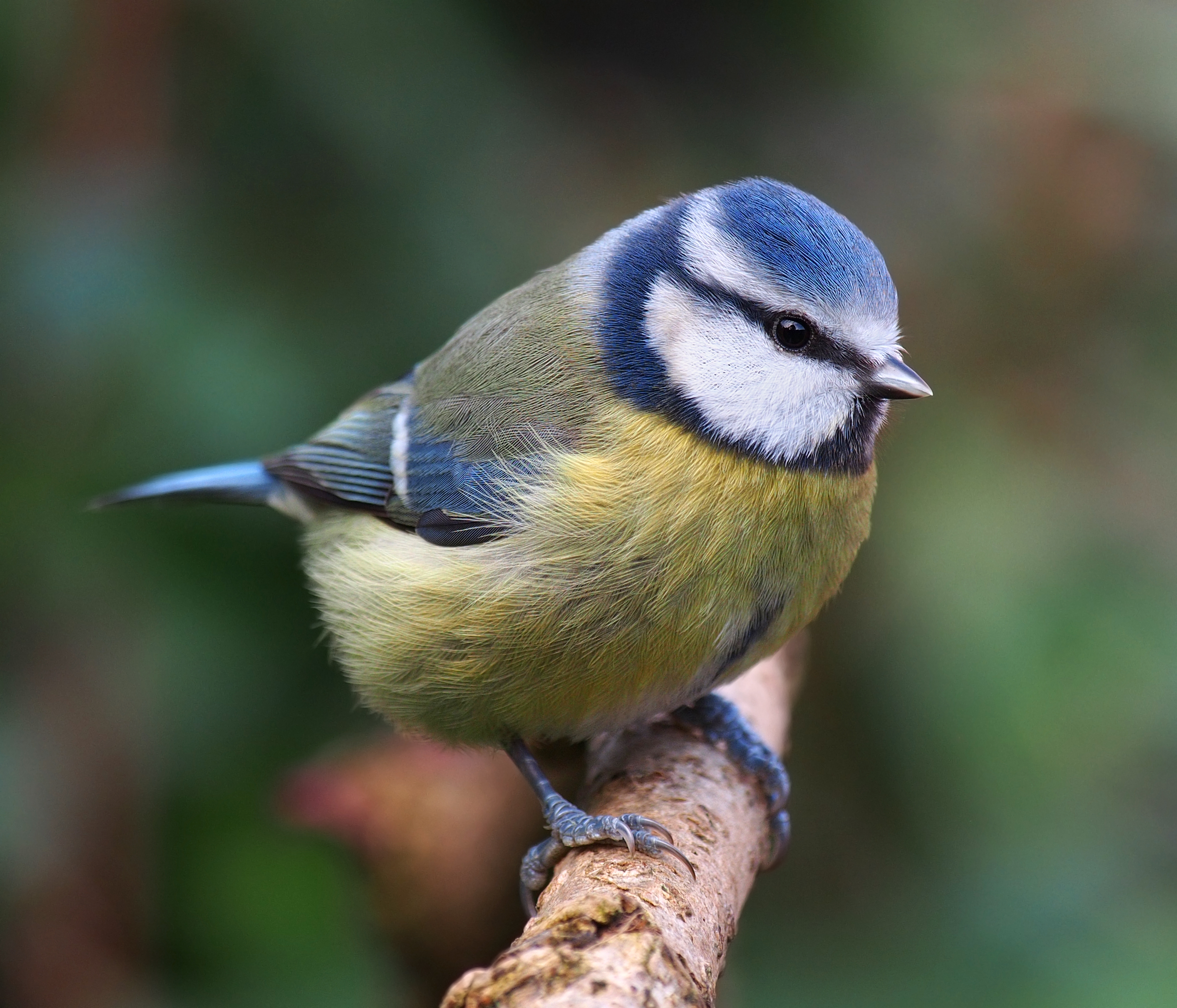 Blue tit, Cyanistes caeruleus, Lancashire, UK